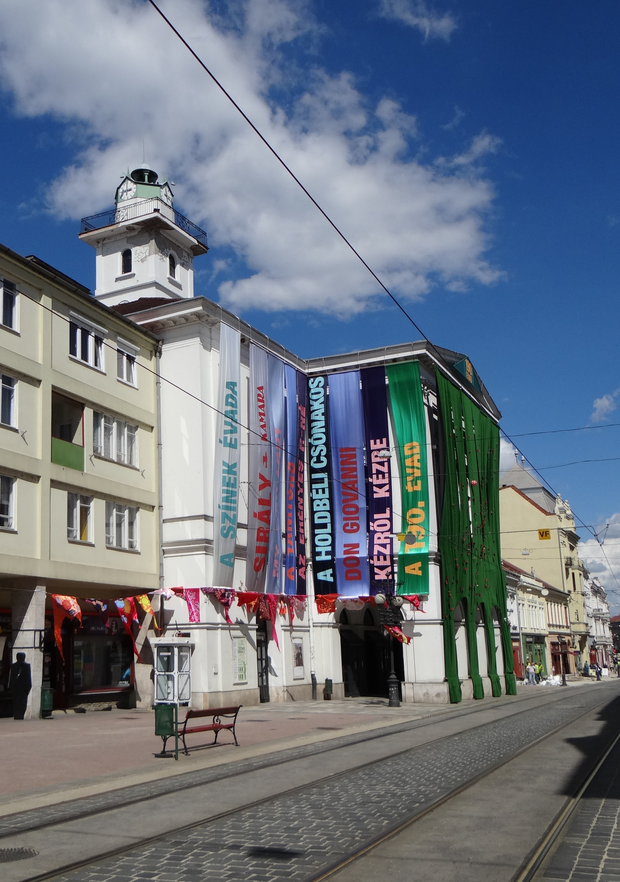 Advertising of 190. season, National Theatre, Miskolc, Hungary